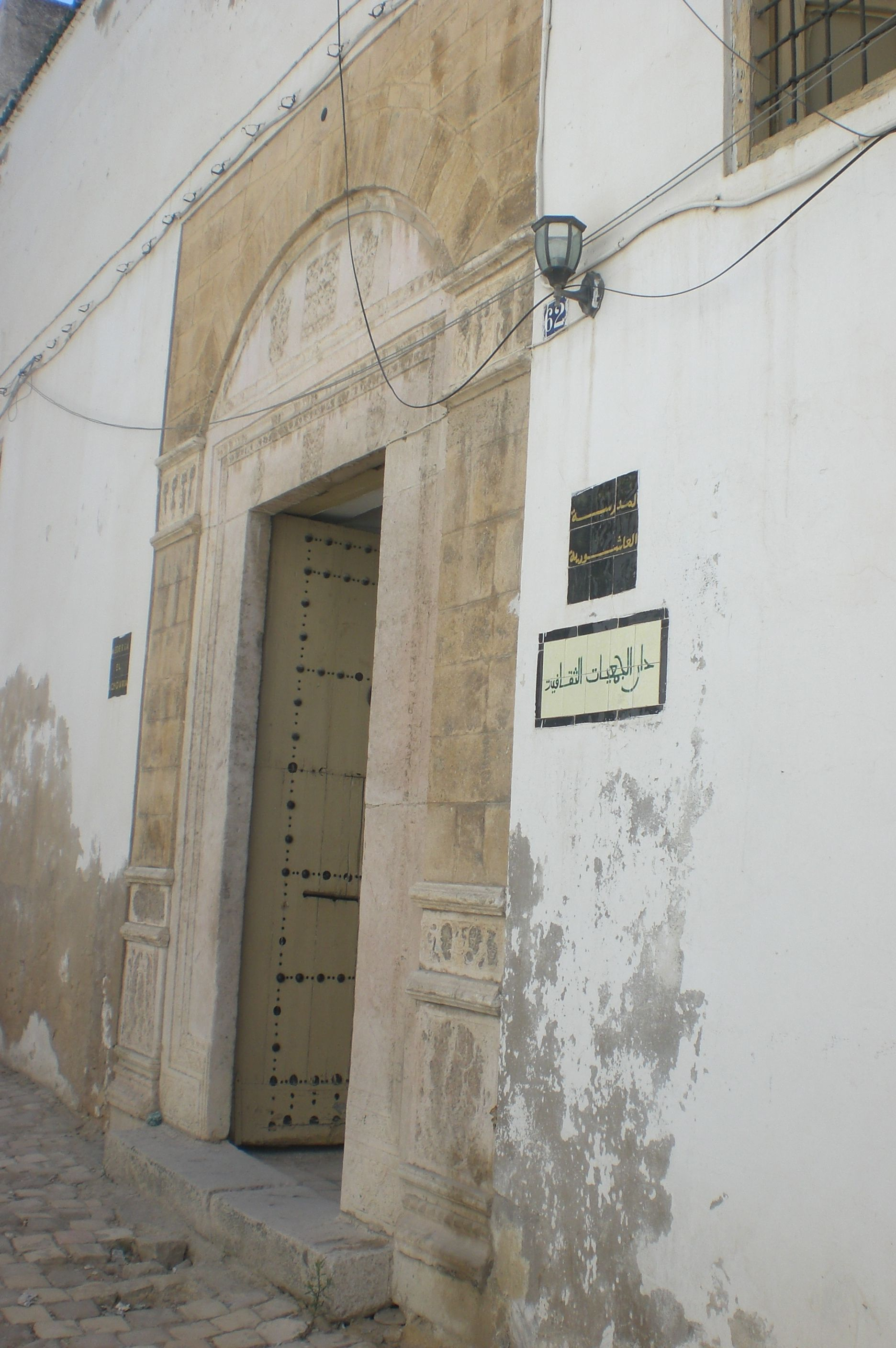 The entree of :edersq Qchoriq in Tunis